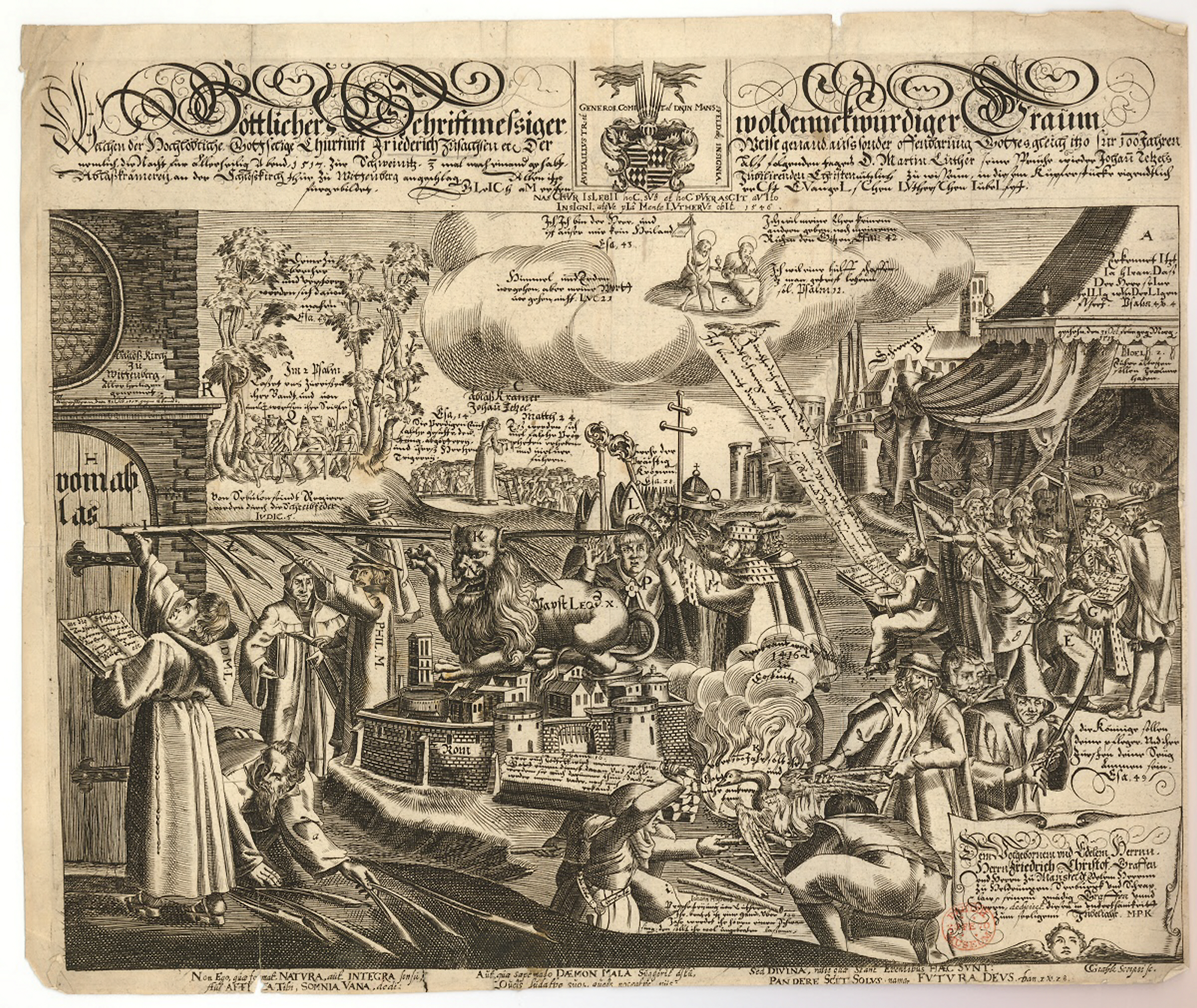 "This broadsheet depicts the early Reformation of the Christian Church as a prophetic dream of Friedrich III, often known as Frederick the Wise, the canny Elector of Saxony. "